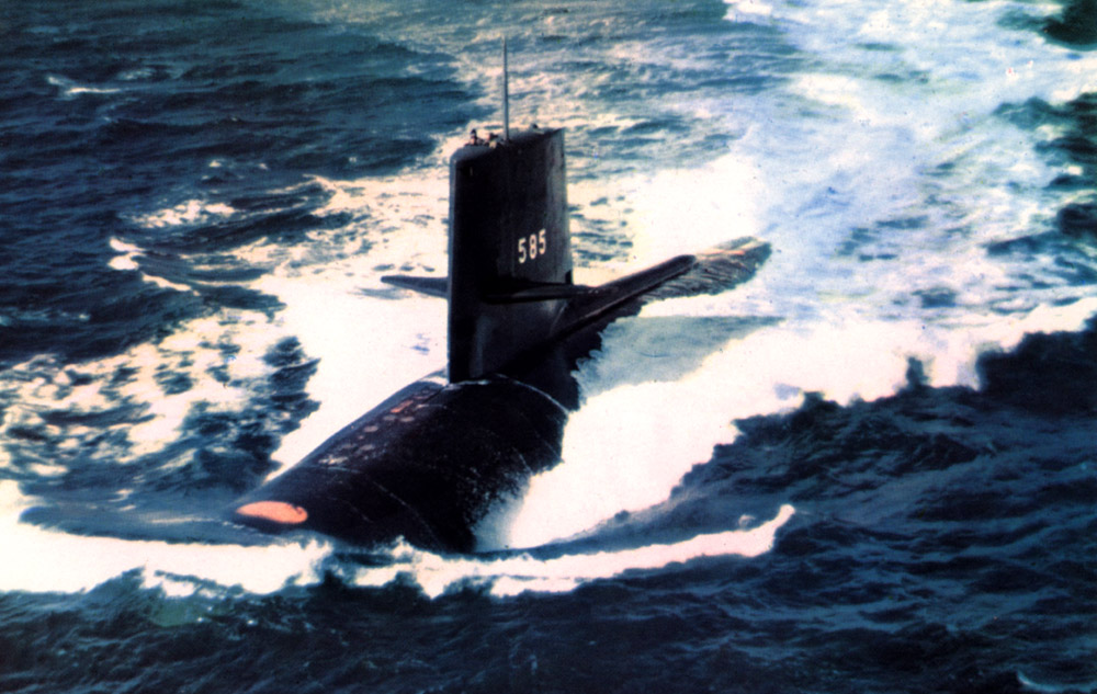 The U.S. Navy submarine USS Skipjack (SSN-585) underway, circa in the 1970s.